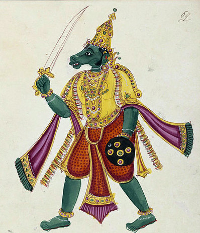 kalki